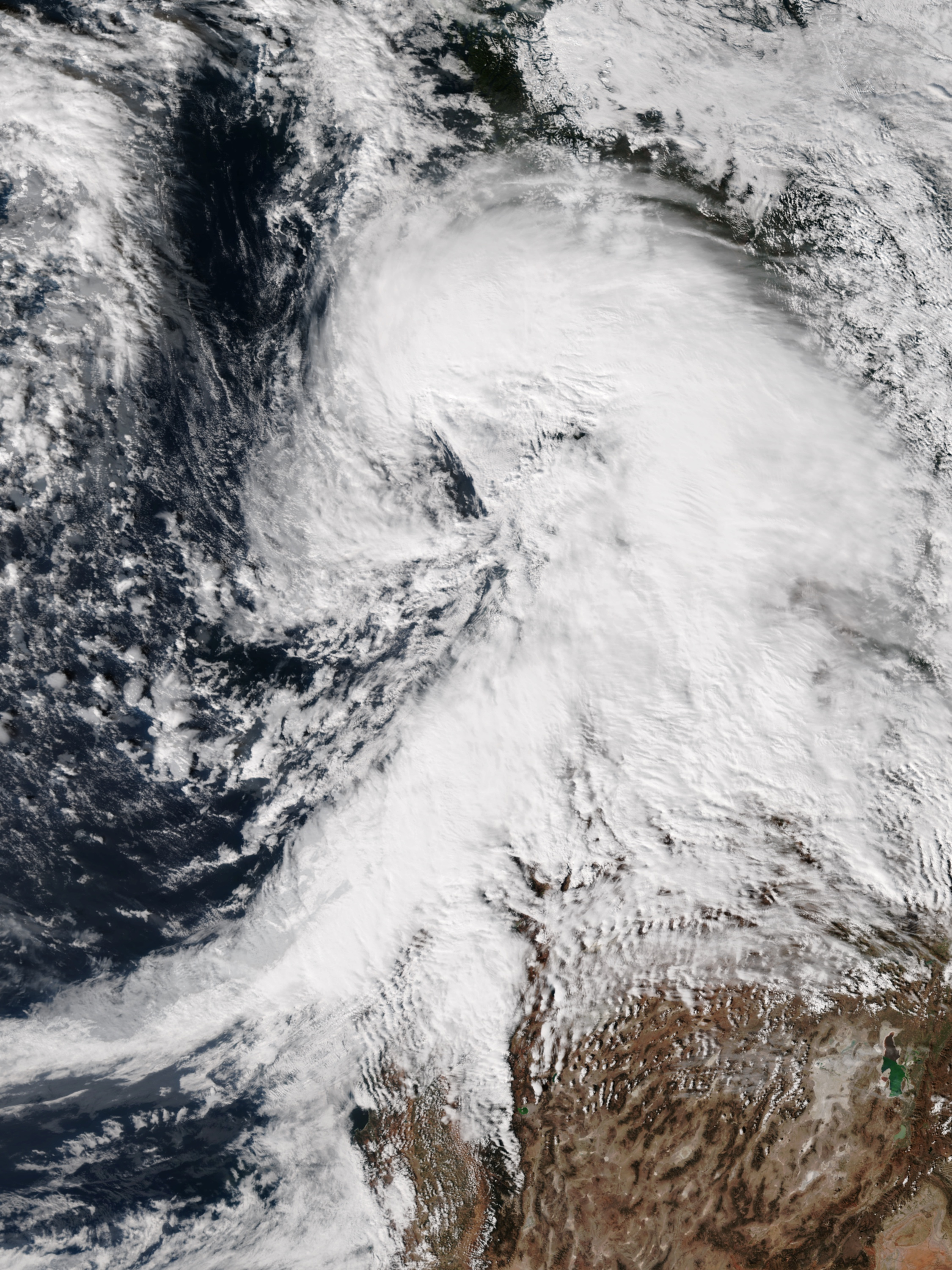 Post-Tropical Cyclone Songda (the Ides of October storm) as a hurricane-force low near Western Washington at 13:30 PDT (20:30 UTC) on October 15, 2016.